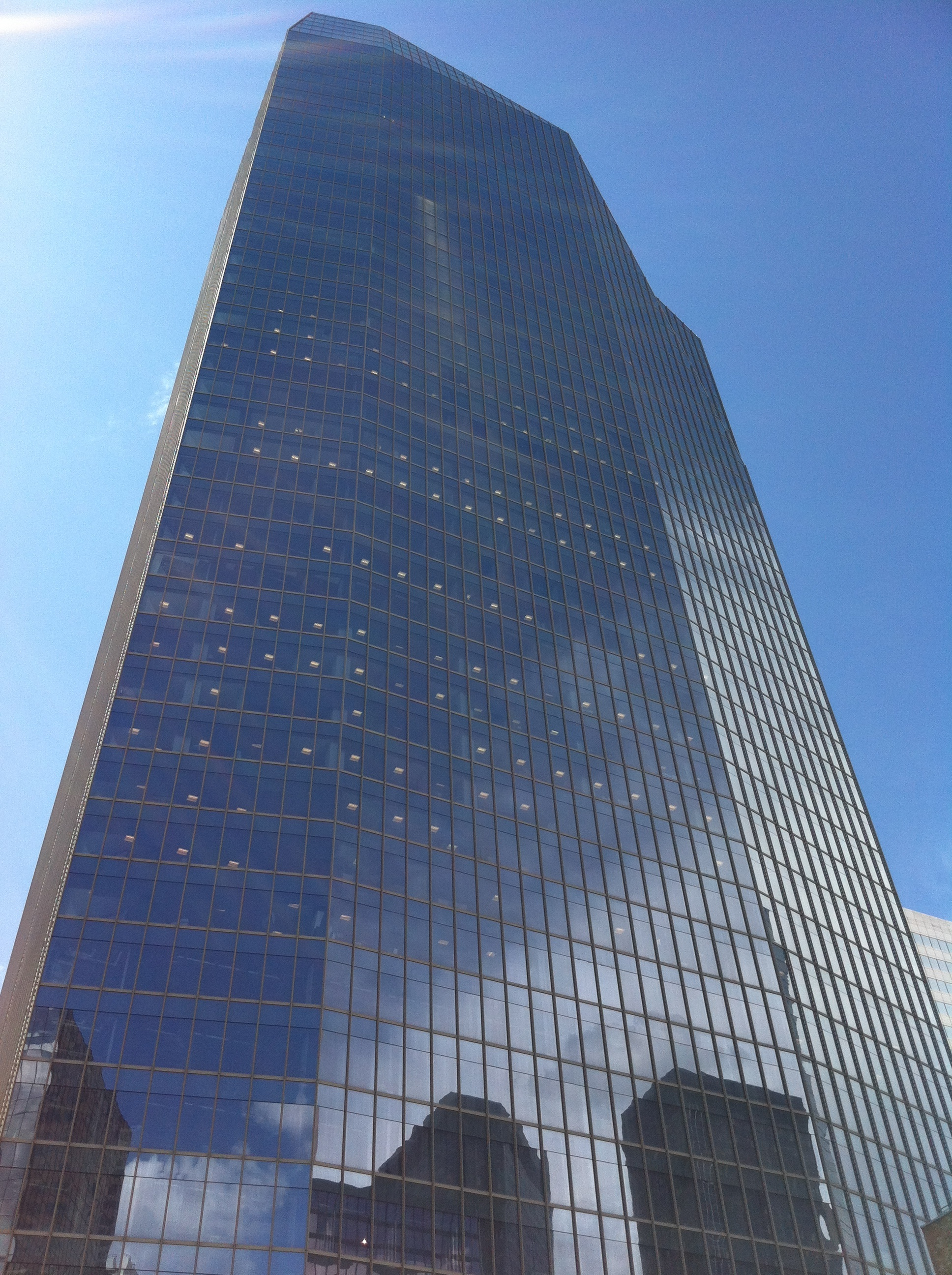 Looking up at the full east façade of the completed Eighth Avenue Place, Calgary.